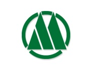 Flag of Mihara Kochi